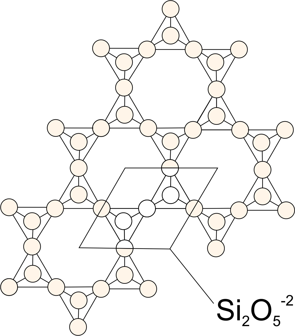 Phyllosilicates structure (without OH)